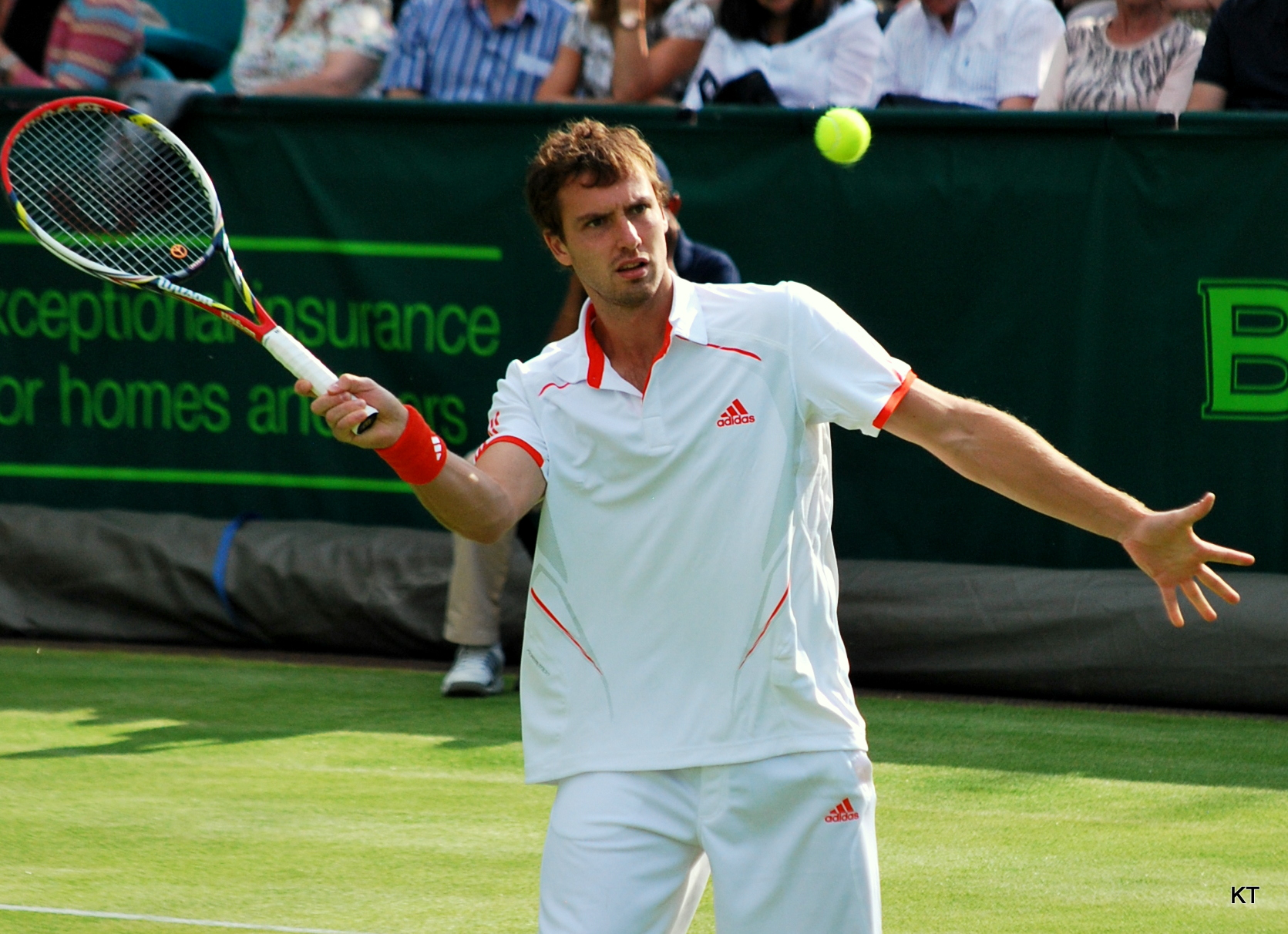 The Boodles, Stoke Park 2012.